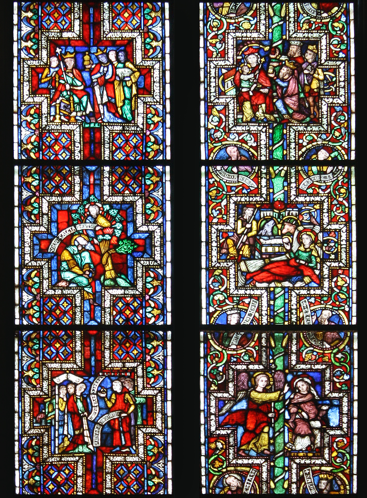 Cologne Cathedral. Detail of the earlier Bible window, c.1260